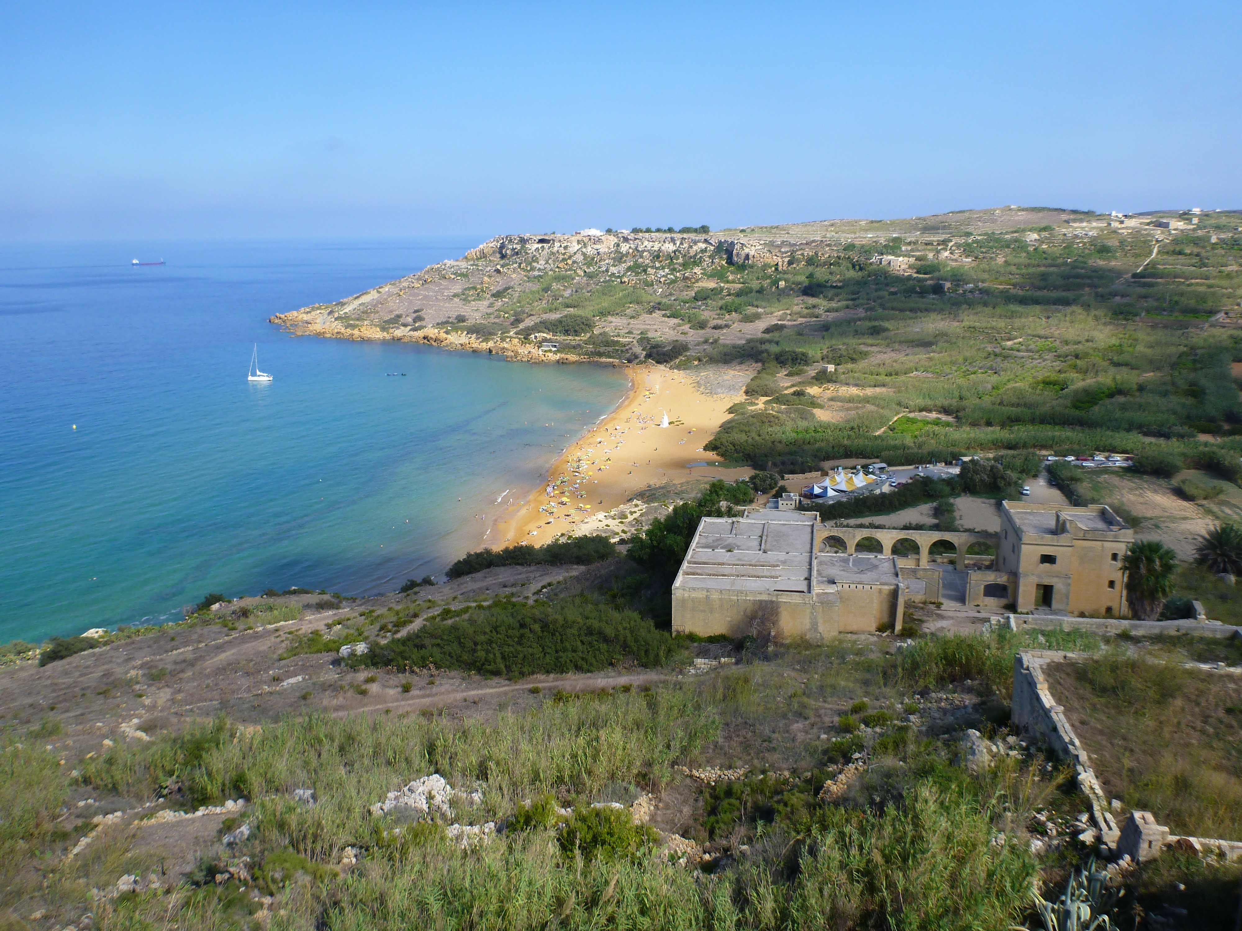 Ramla Bay taken from the east side at the Calypso Cave